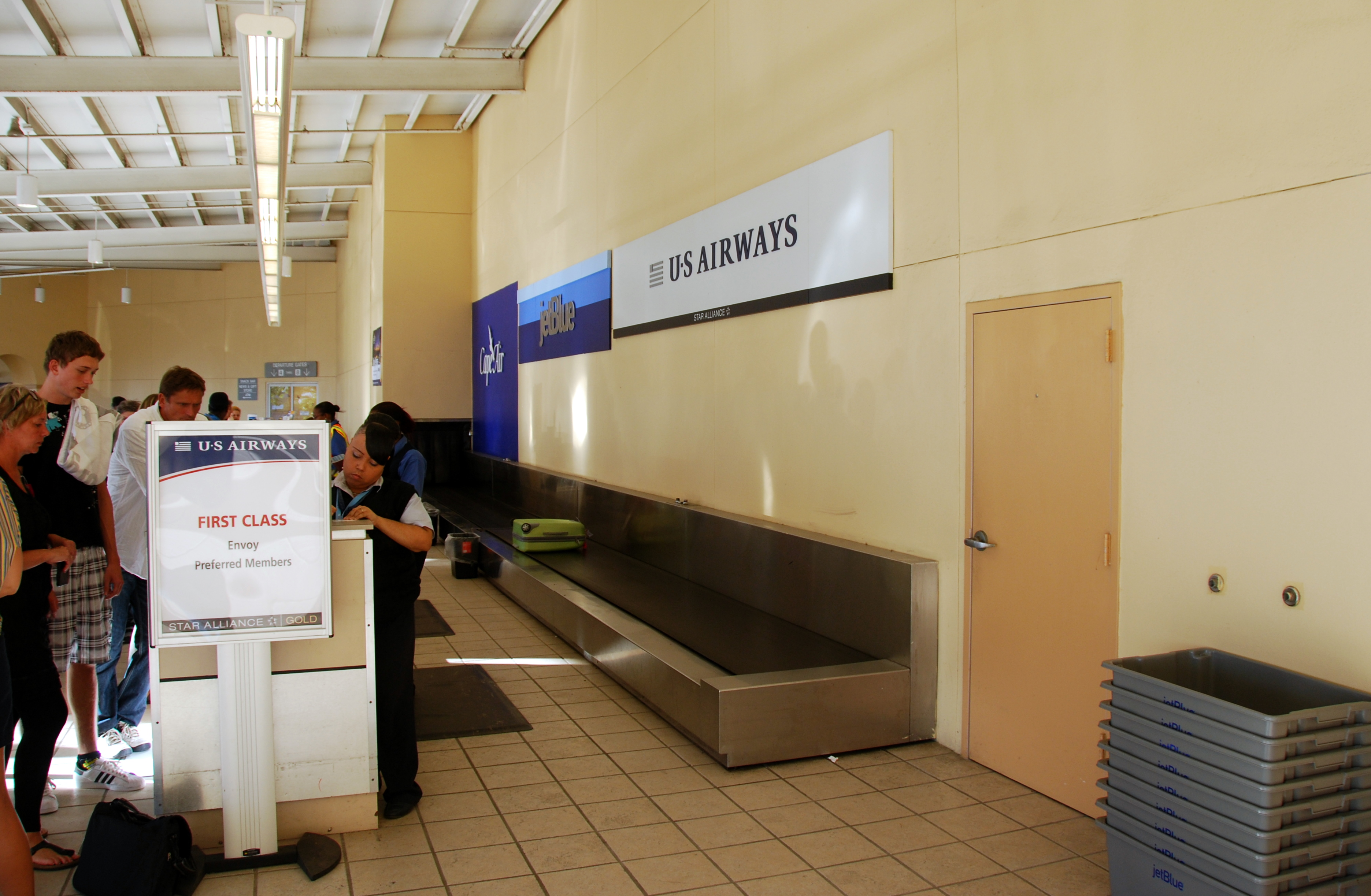 Check-in at Henry E. Rohlsen Airport terminal, St. Croix.